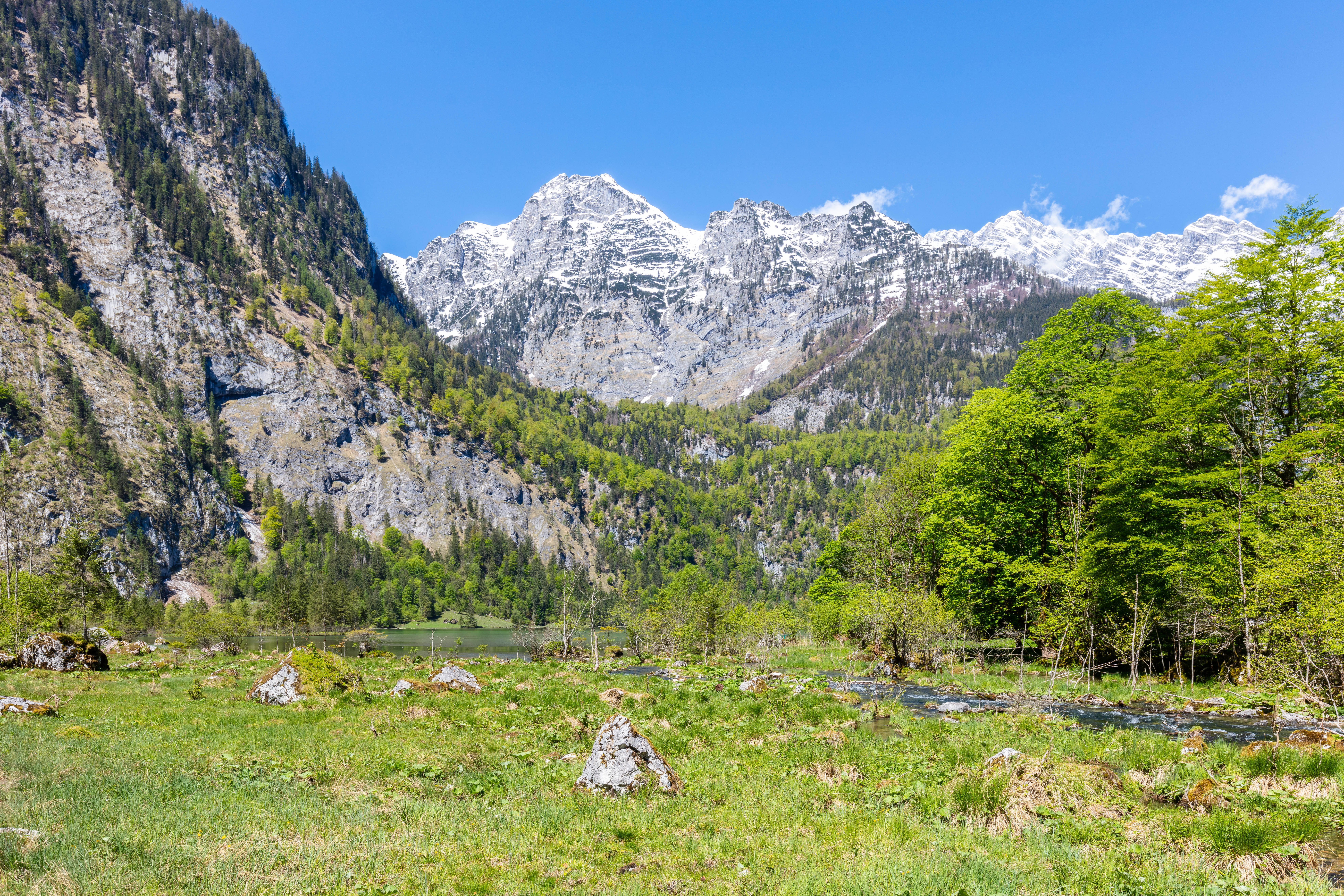 Berchtesgaden Alps, Germany